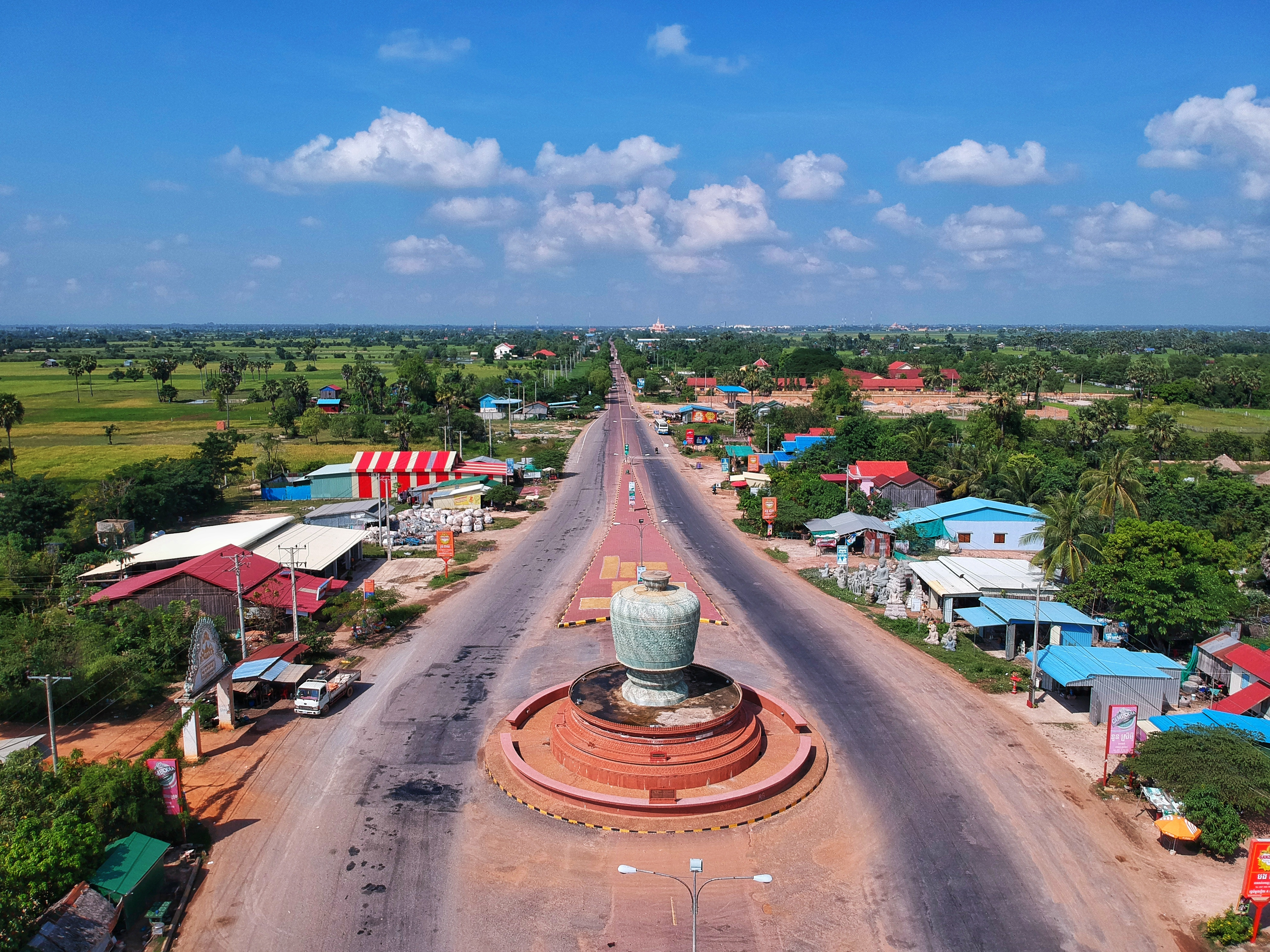 This is the skyline of Pursat from its entrance on Highway 5, featuring the large Ptel that greats Pursat's visitors. The Ptel is a sign of hospitality.